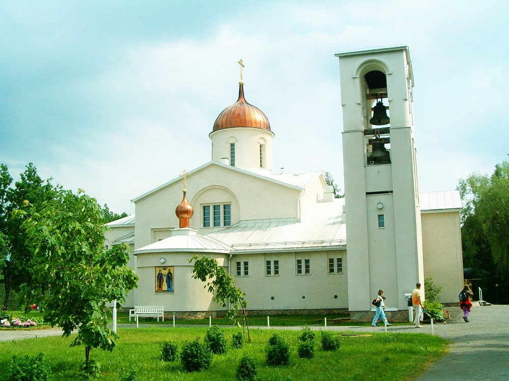 The main church of New Valamo orthodox monastery in Heinävesi, Finland.